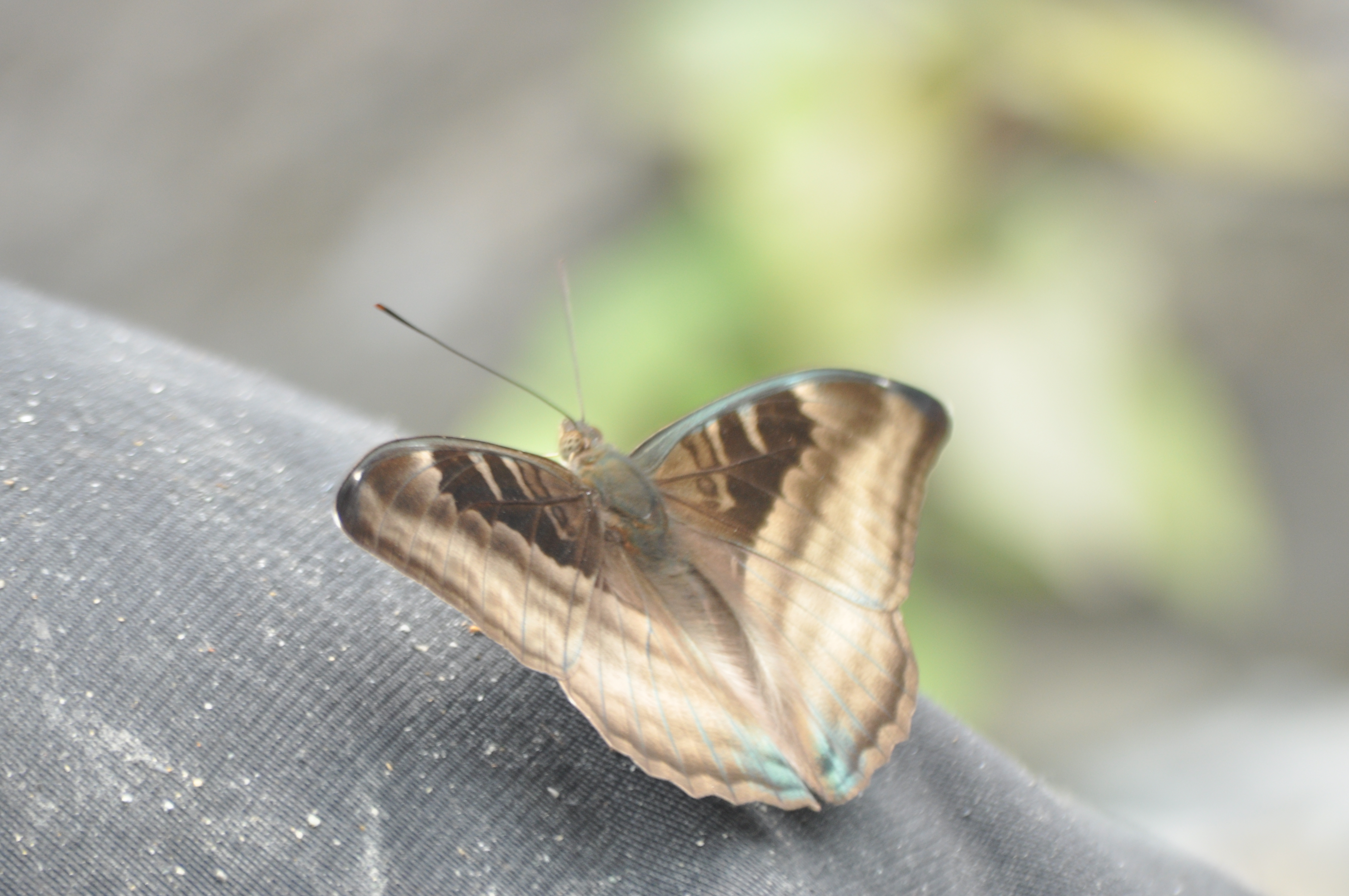 This image was taken in the project Wiki Loves Butterfly.Open wing position of male Auzakia danava Moore, 1857 – Commodore